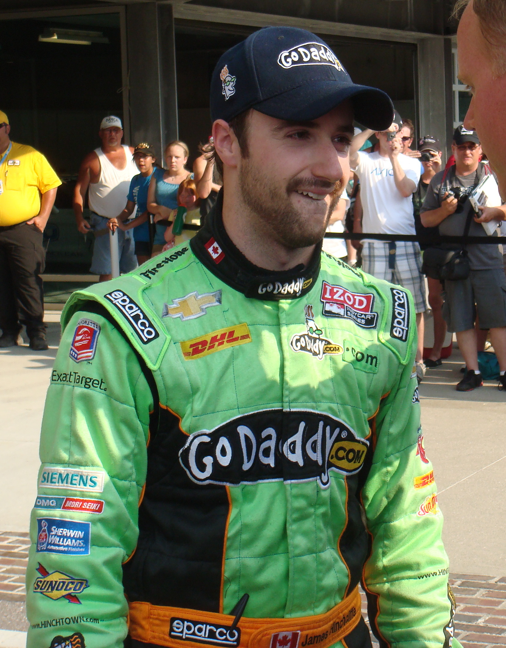 James Hinchcliffe at the Indianapolis Motor Speedway in 2012, shortly after securing a front row starting spot for the 2012 Indianapolis 500.